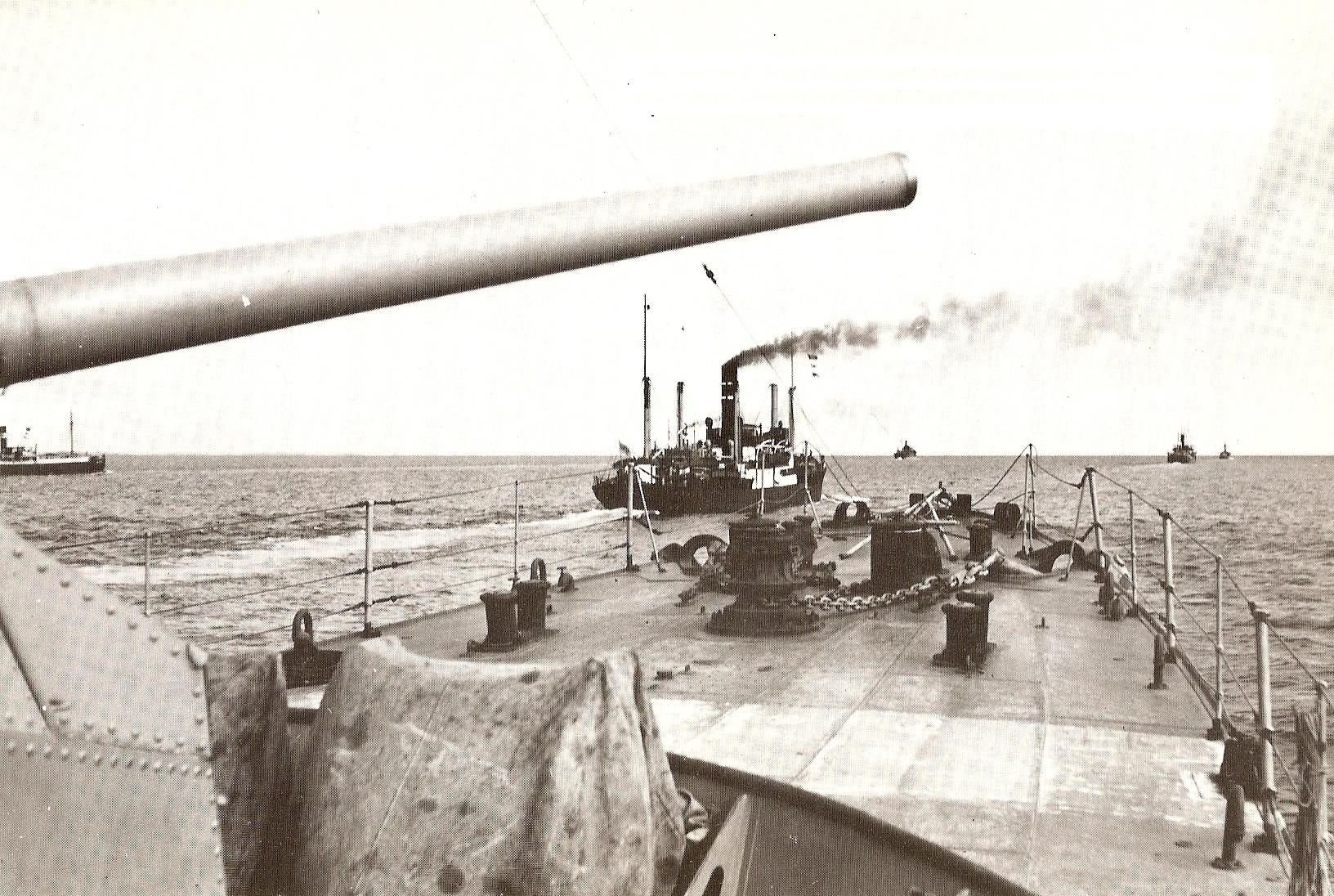 Merchant ships from the nordic countries in a convoy in the Baltic Sea, protected by Swedish Navy ships